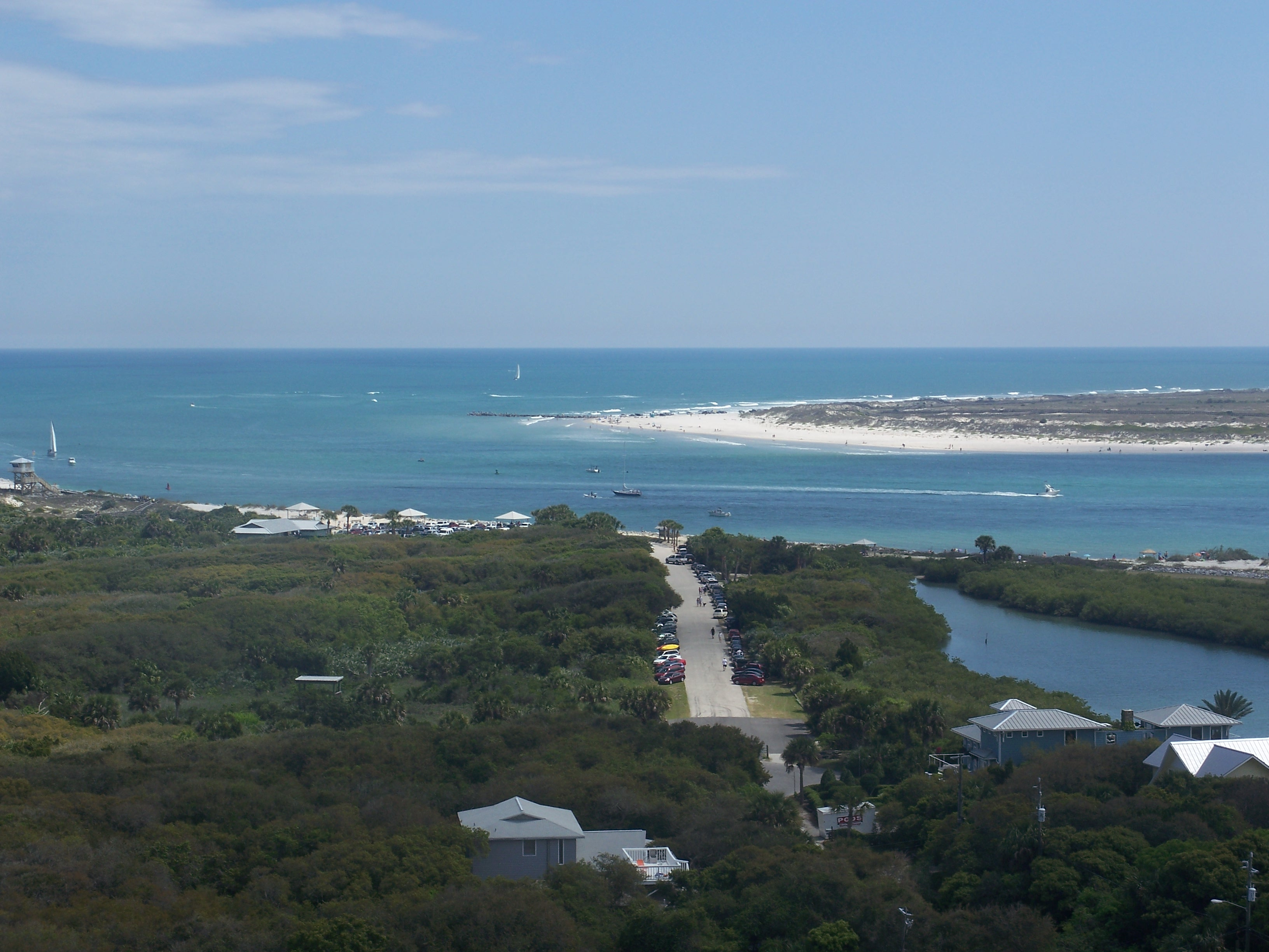 Ponce Inlet, Florida: Ponce de Leon Inlet Light: View from the top.